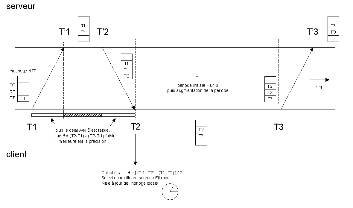 "client/serveur" NTP paradigm description